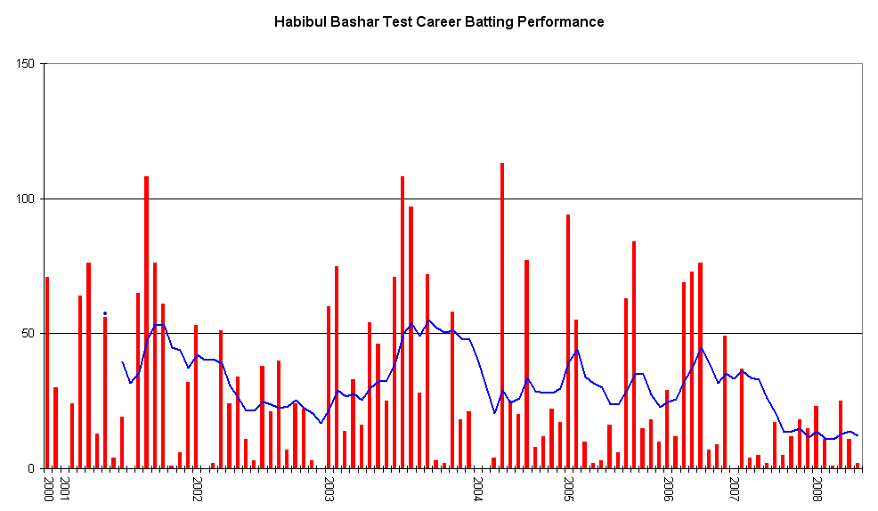 This graph details the Test Match performance of Habibul Bashar. It was created by Raven4x4x. The red bars indicate the player's test match innings, while the blue line shows the average of the ten most recent innings at that point. Note that this average cannot be calculated for the first nine innings. The blue dots indicate innings in which Bashar finished not-out. This graph was generated with Microsoft Excel 2002, using data from Cricinfo [1] and Howstat [2]. The information in this graph is current as of 30 March 2008.